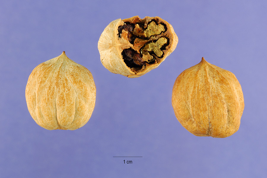 Carya glabra